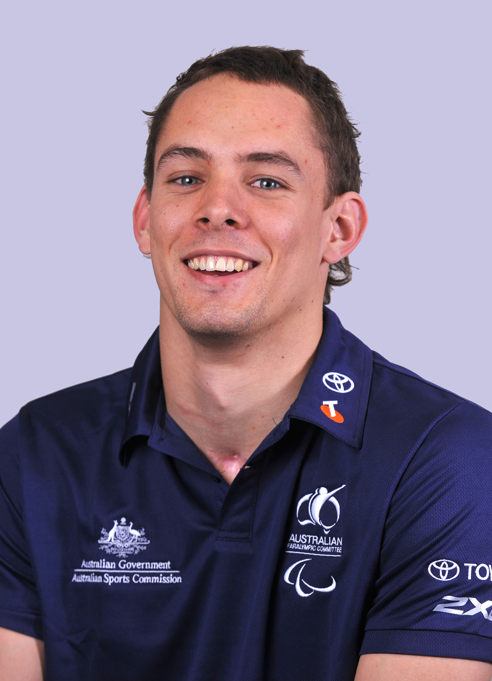 Portrait of Australian wheelchair rugby player Cody Meakin, 2012 Australian Paralympic (shadow) Team athlete